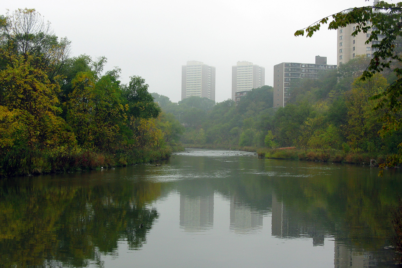 Building's reflections on Humber River, near Weston Road, in Toronto, Ontario, Canada.